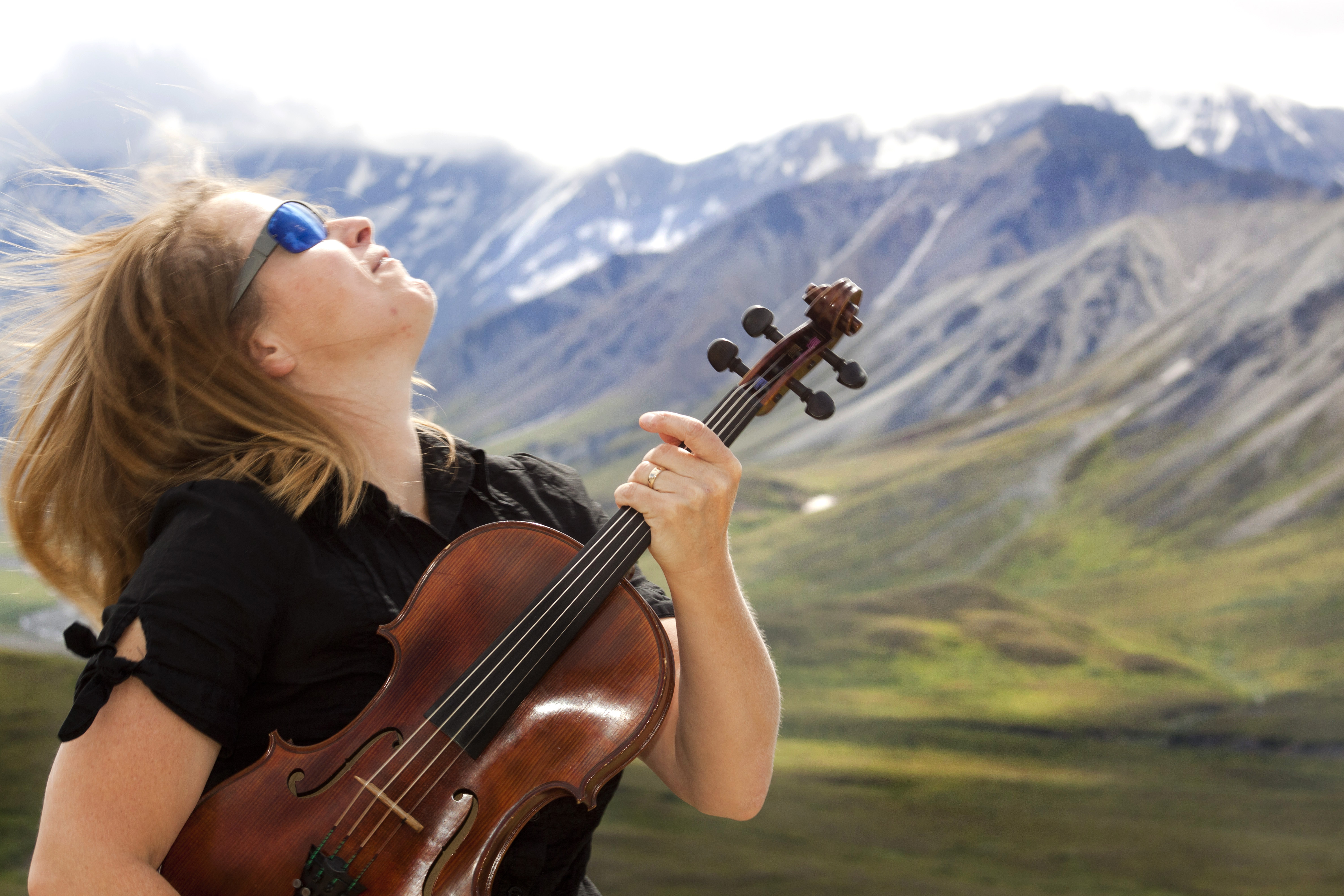 Denali Music Festival NPS Photo Naaman Horn